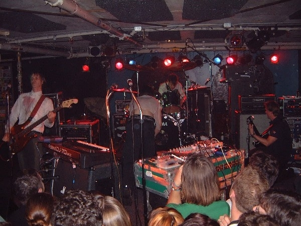 Tomahawk